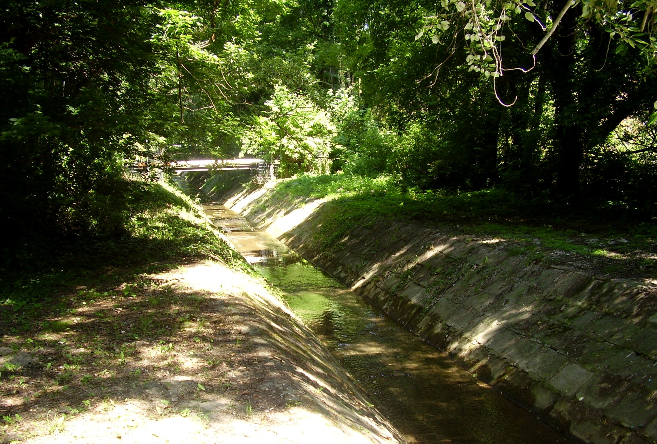 Rákos-patak in Gödöllő, Pest Country.